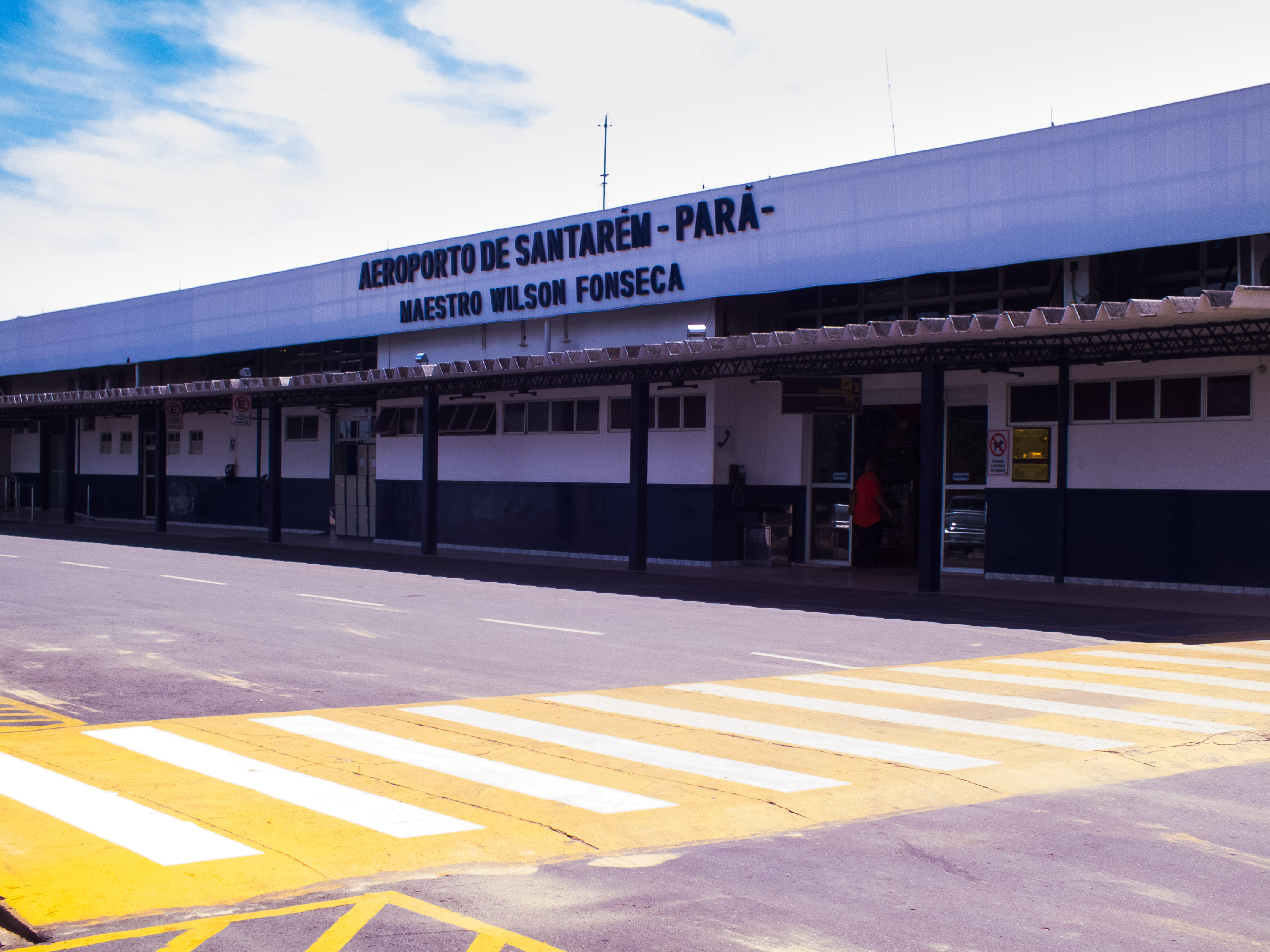 Santarém - Wilson Fonseca International - SBSN